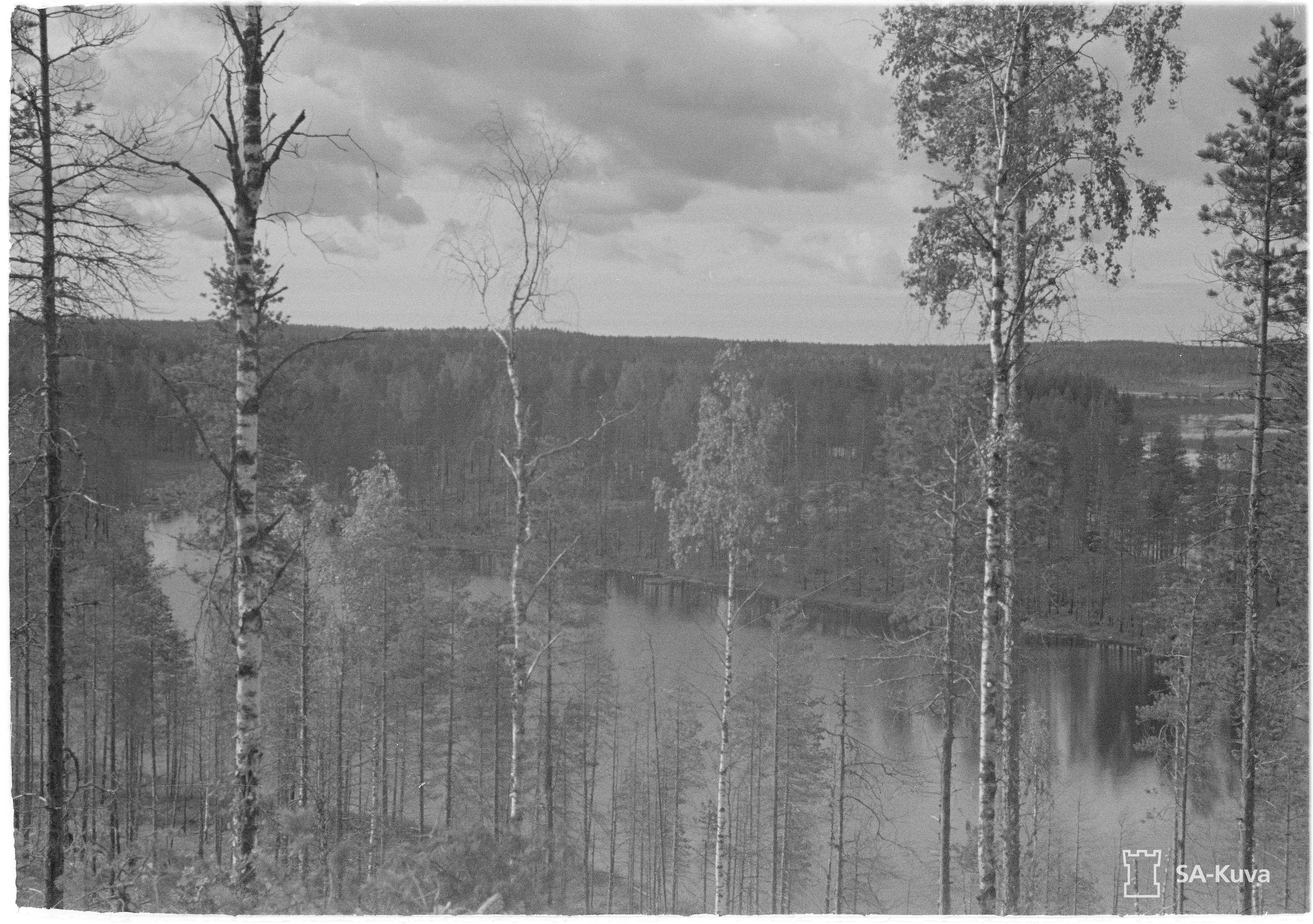 Kuvia Syskyjrven etulinjanmaastosta.